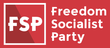 Logo of the Freedom Socialist Party